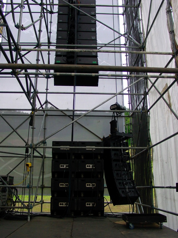 Meyer Milo line array with EAW subs and an EAW side fill array Mayer Milo line array EAW side fill array EAW subs